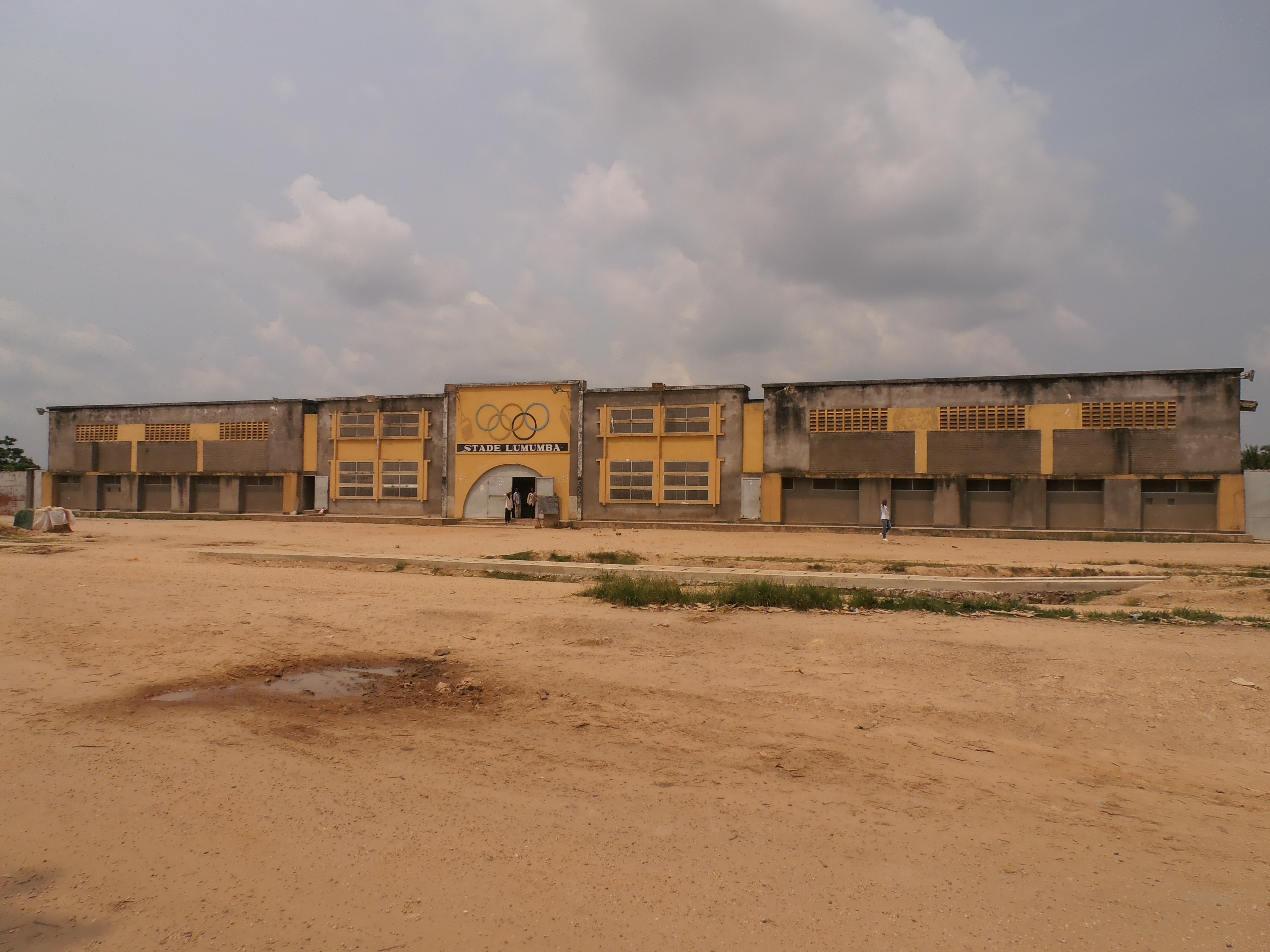 Stade Lumumba, located in the city of Kisangani (D.R.Congo).